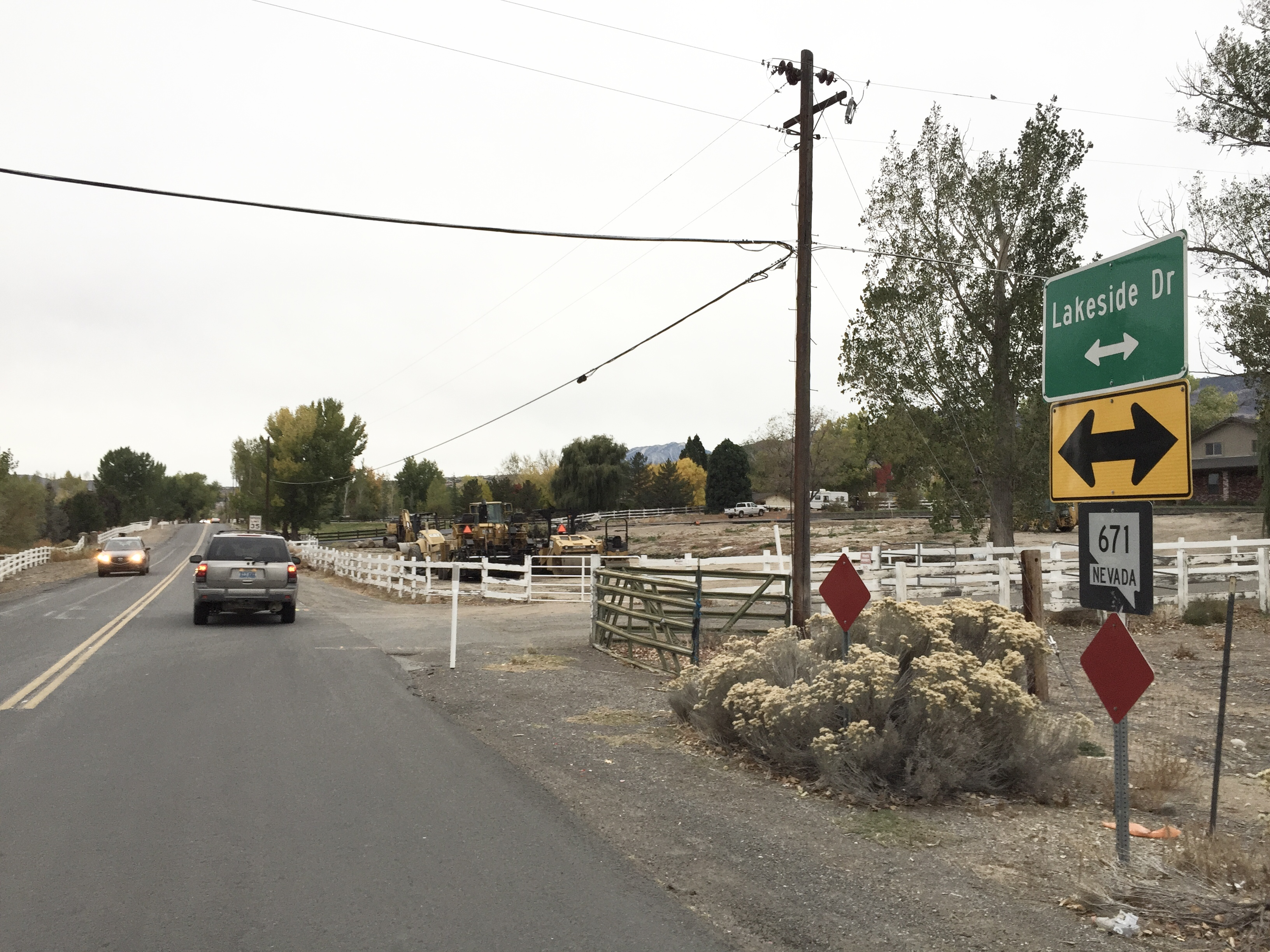 View south along Lakeside Drive (Nevada State Route 671) at the intersection with Huffaker Drive near Reno, Nevada